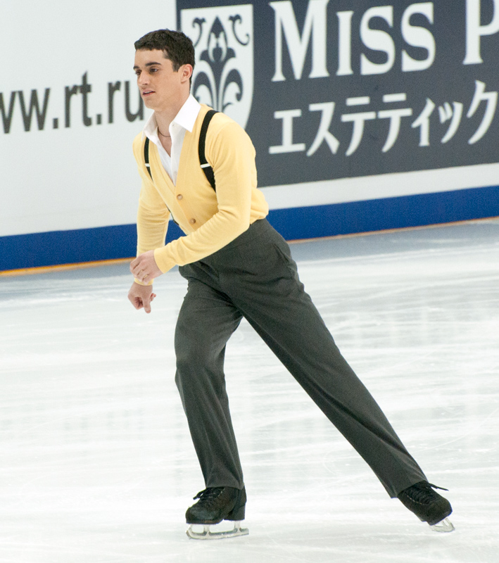 2011 Cup of Russia, short program warmup.